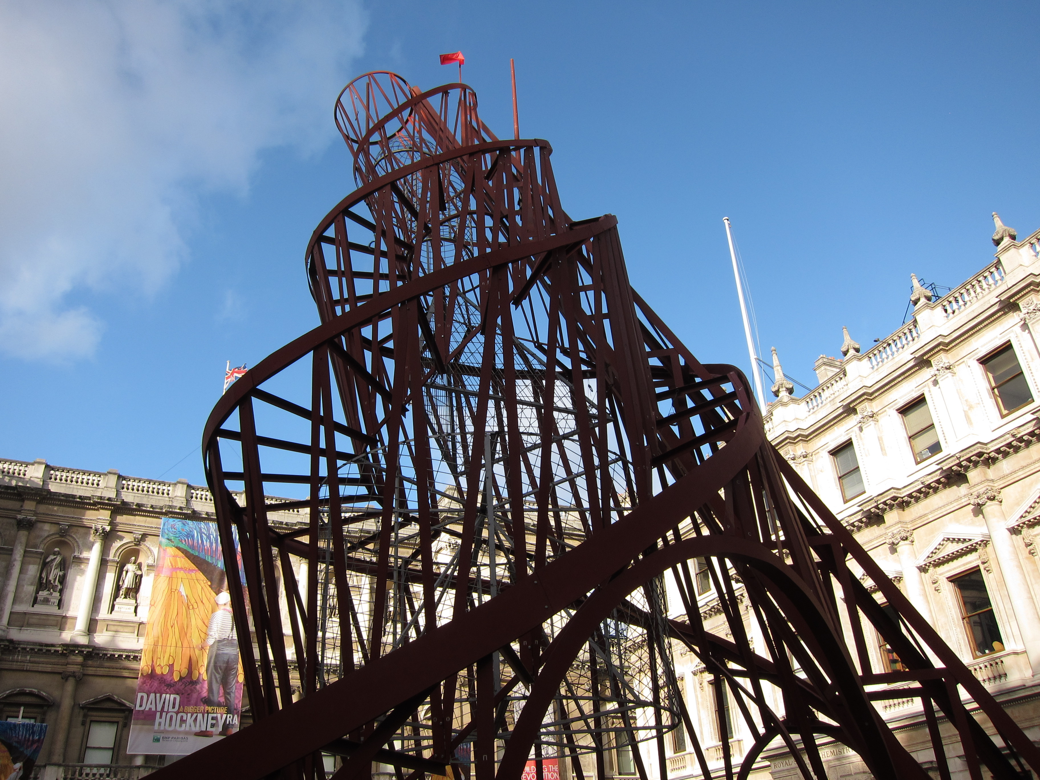 at the RA.